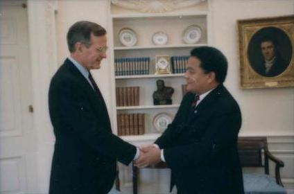 President George H. W. Bush meets with John Haglelgam, President, Federated States of Micronesia